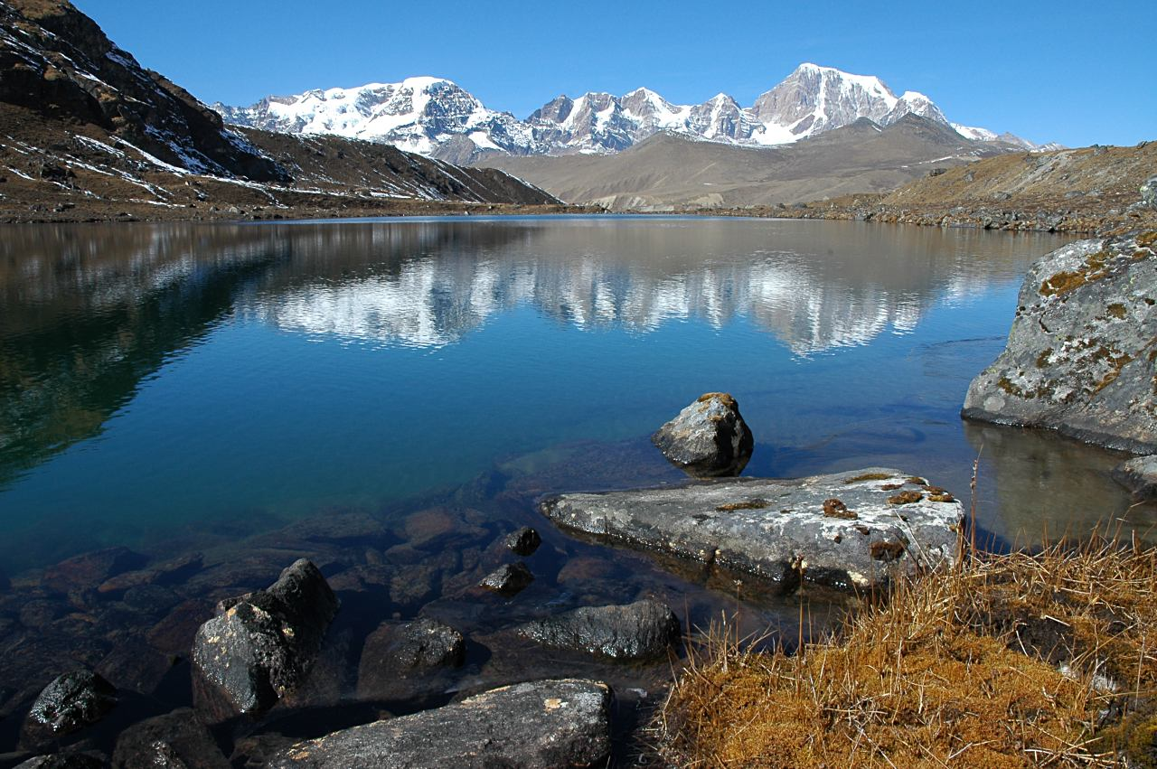 Crow's Lake is one of the hundreds of lakes in Northern Sikkim.